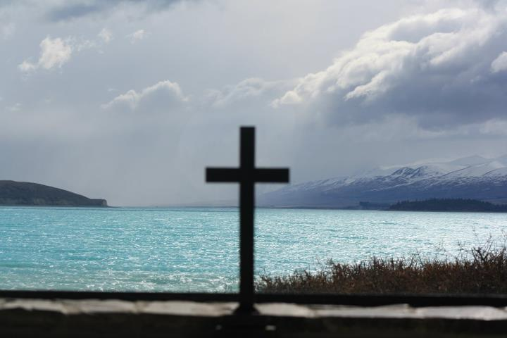 Storms and solace, Lake Tekapo as seen from the altar of the Church of the Good Shepherd